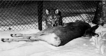 Captive eastern wolf eating deer carcass.